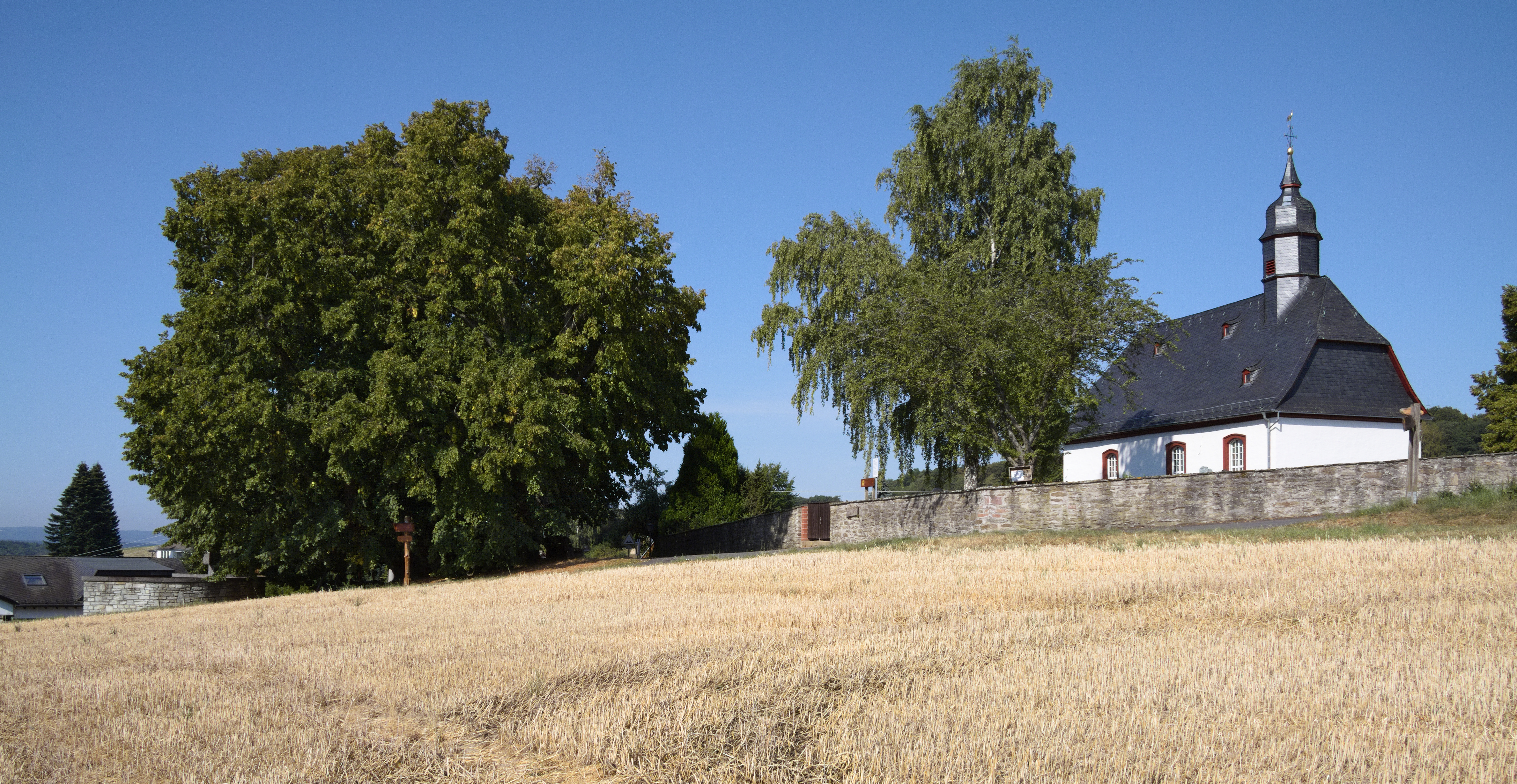 Waldems-Reinborn, Taunus, Germany: Natural monument "Thousand Years Old Tilia" and the church from the early 18th century.